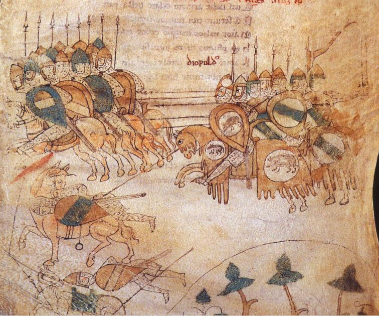 fol.133r: Women Drive Herd in between and Capture Two Men